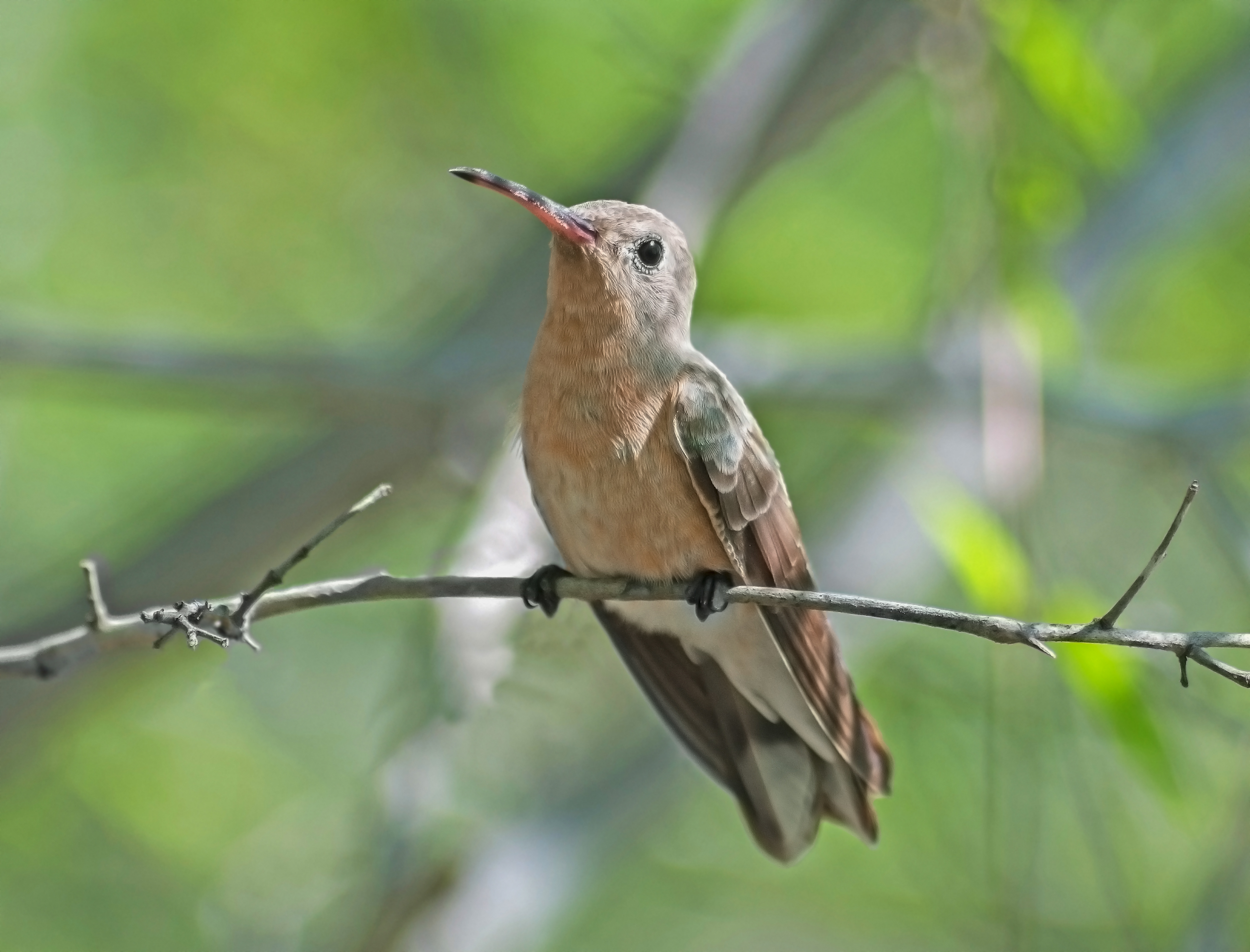 The Buffy Hummingbird (Leucippus fallax), a species of hummingbird in the Trochilidae family, pictured on Isla Margarita, Venezuela. The Hummingbird is perched on a branch of a tree Prosopis juliflor